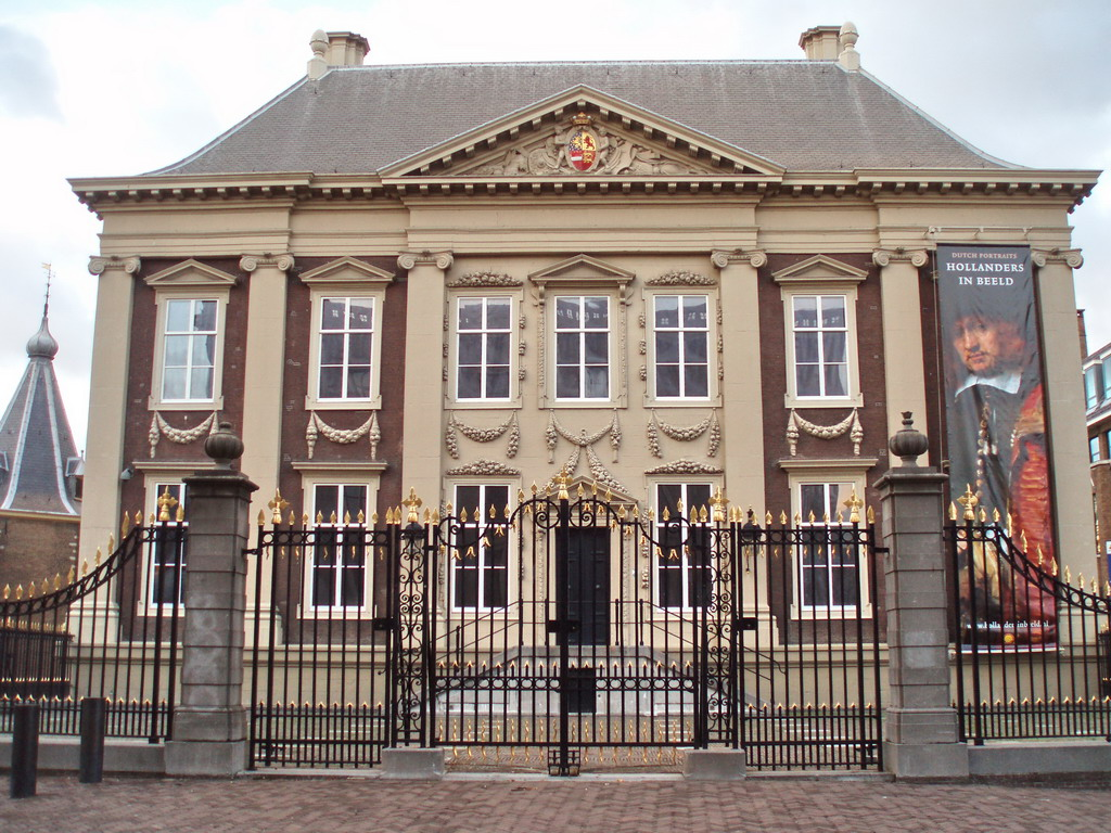 The Mauritshuis was built in 1640. Now it is a museum in The Hague, Netherlands. Previously it was the residence of count John Maurits of Nassau. The Mauritshuis is one of the most prominent museums in the Netherlands. The architects of the building were Jacob van Campen and Pieter Post.